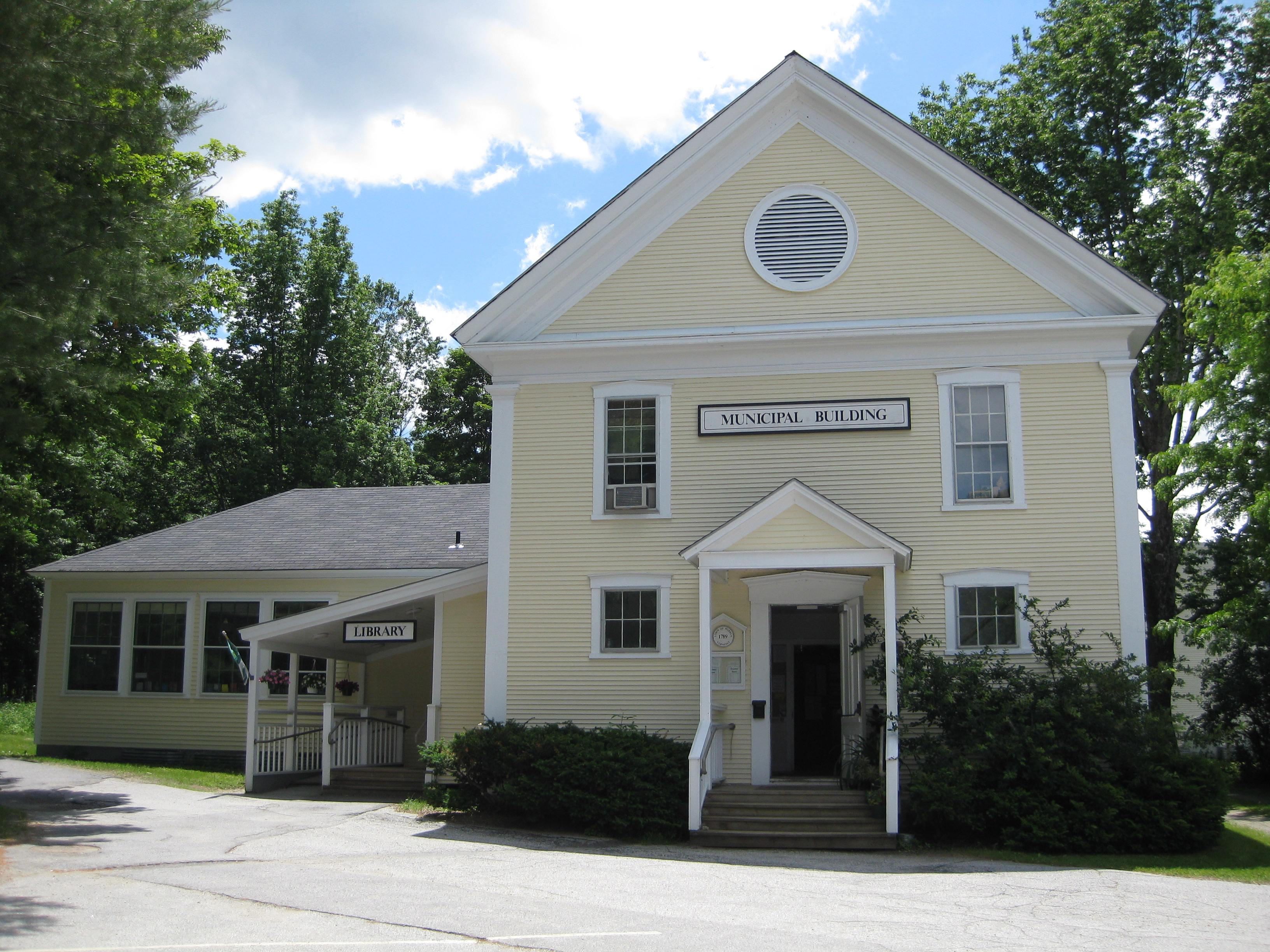 library, Warren, Vermont